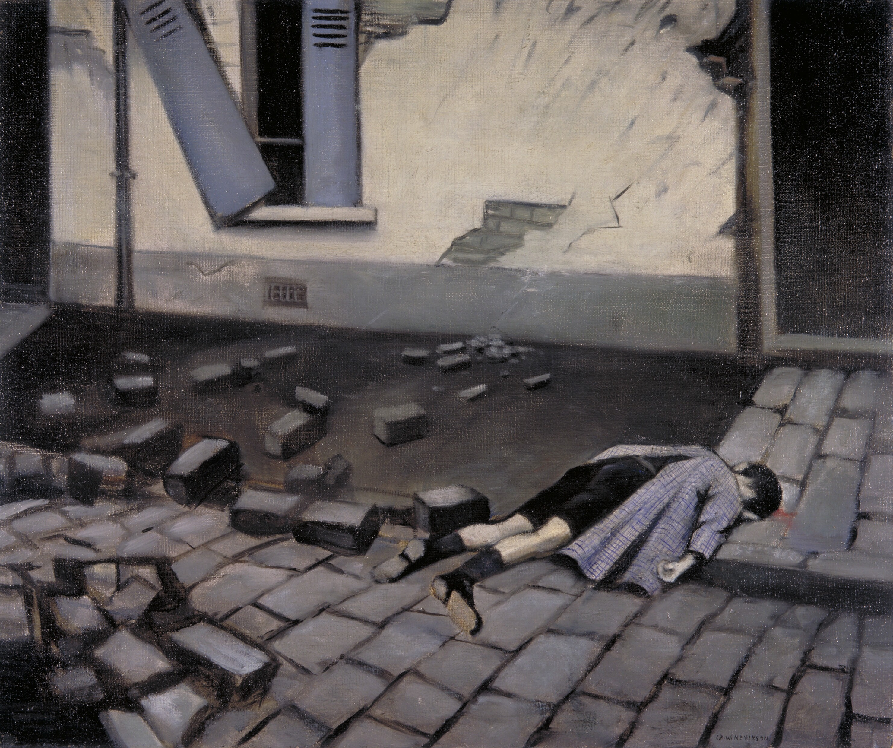 A Taube image: The body of a small French schoolboy lies on the pavement outside a house. The corpse is surrounded by broken cobblestones from a hole blown in the street during an air raid.